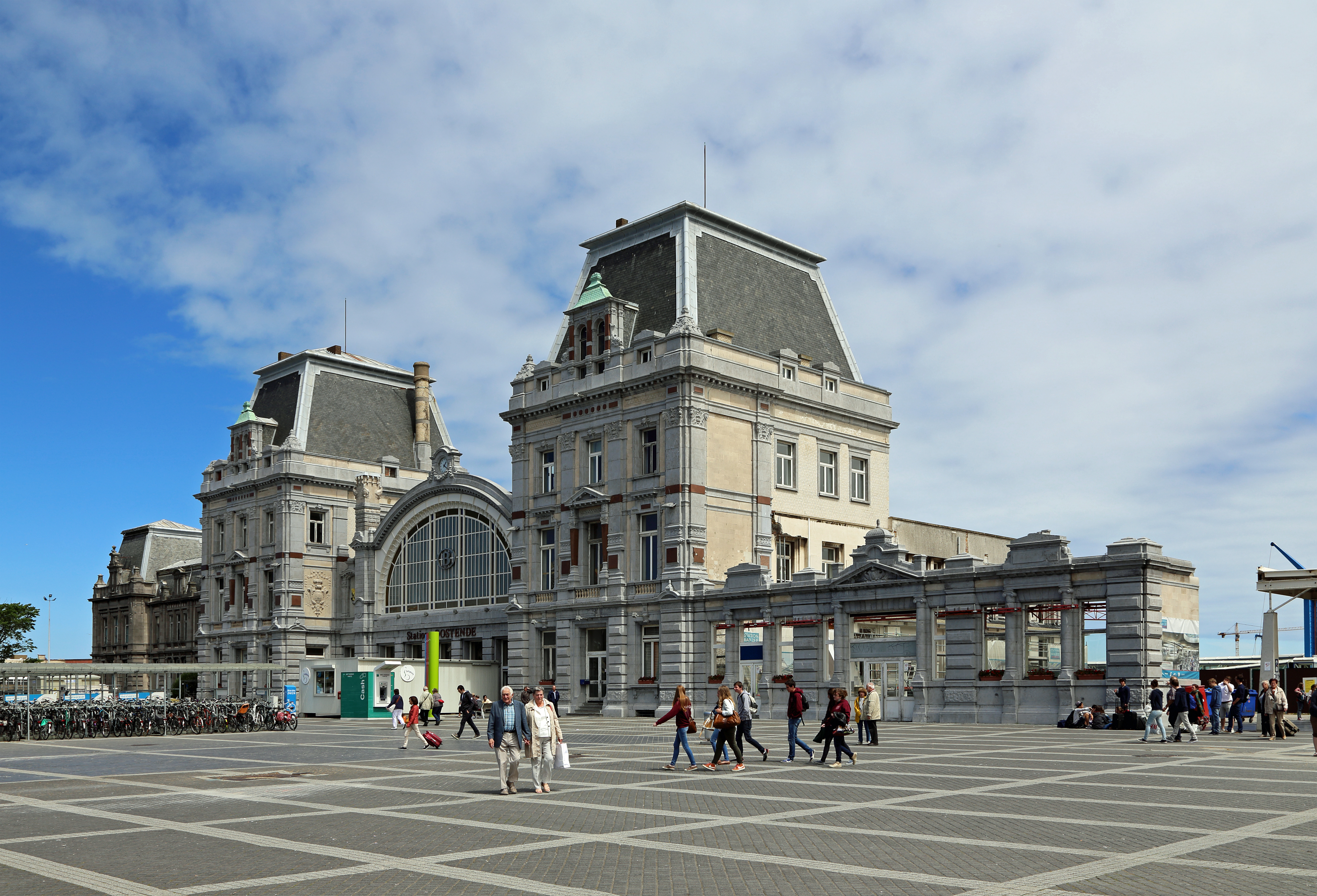 Ostend (Belgium) train station